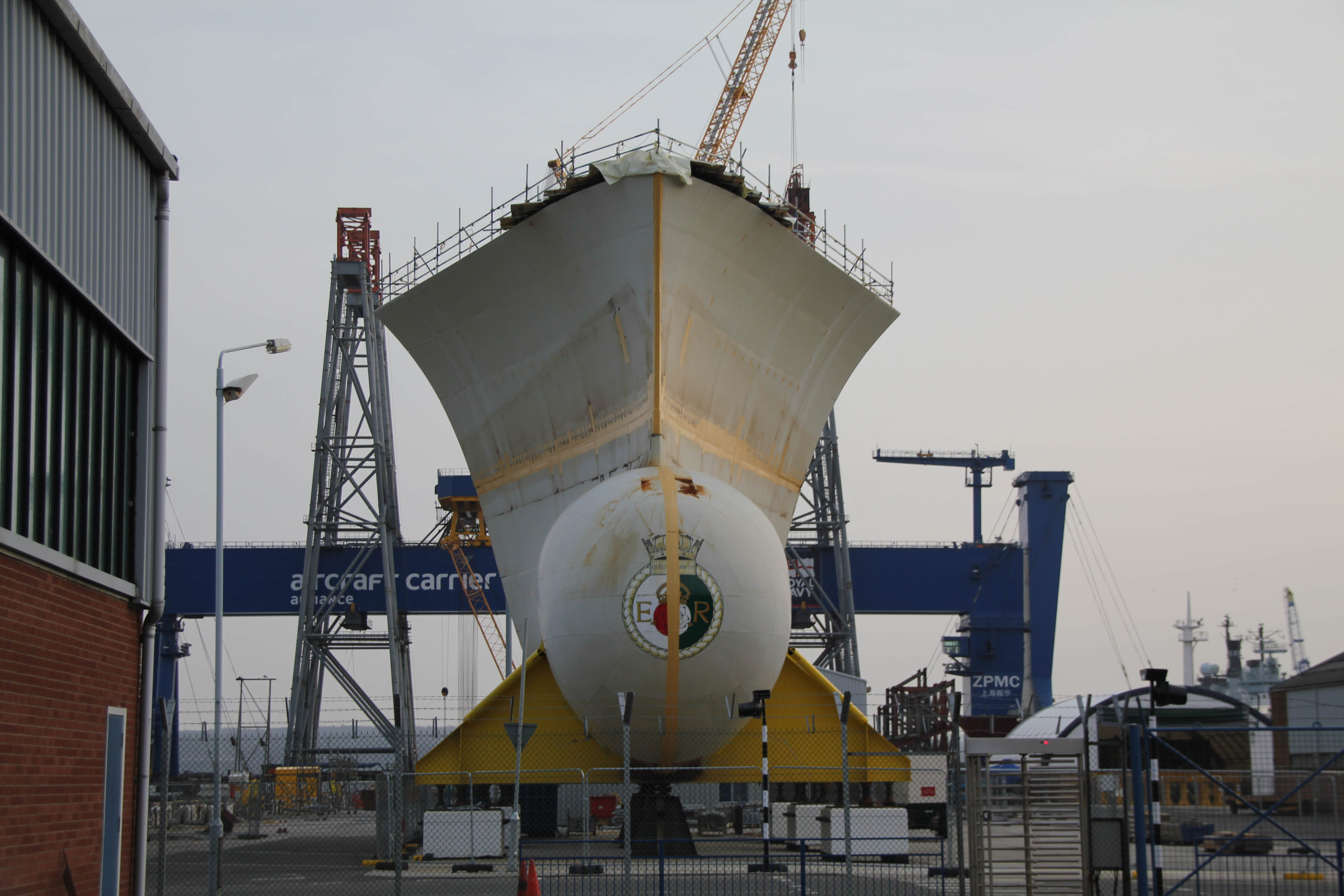 First section of HMS Queen Elizabeth in place at Rosyth, showing ship name on its bulbous bow. HMS Illustrious can just be seen behind buildings to the right.